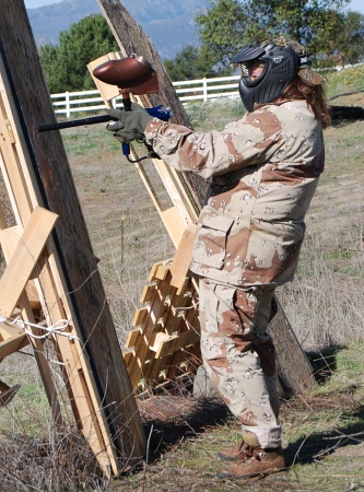 Woman with Spyder-like paintball marker participating in paintball match.